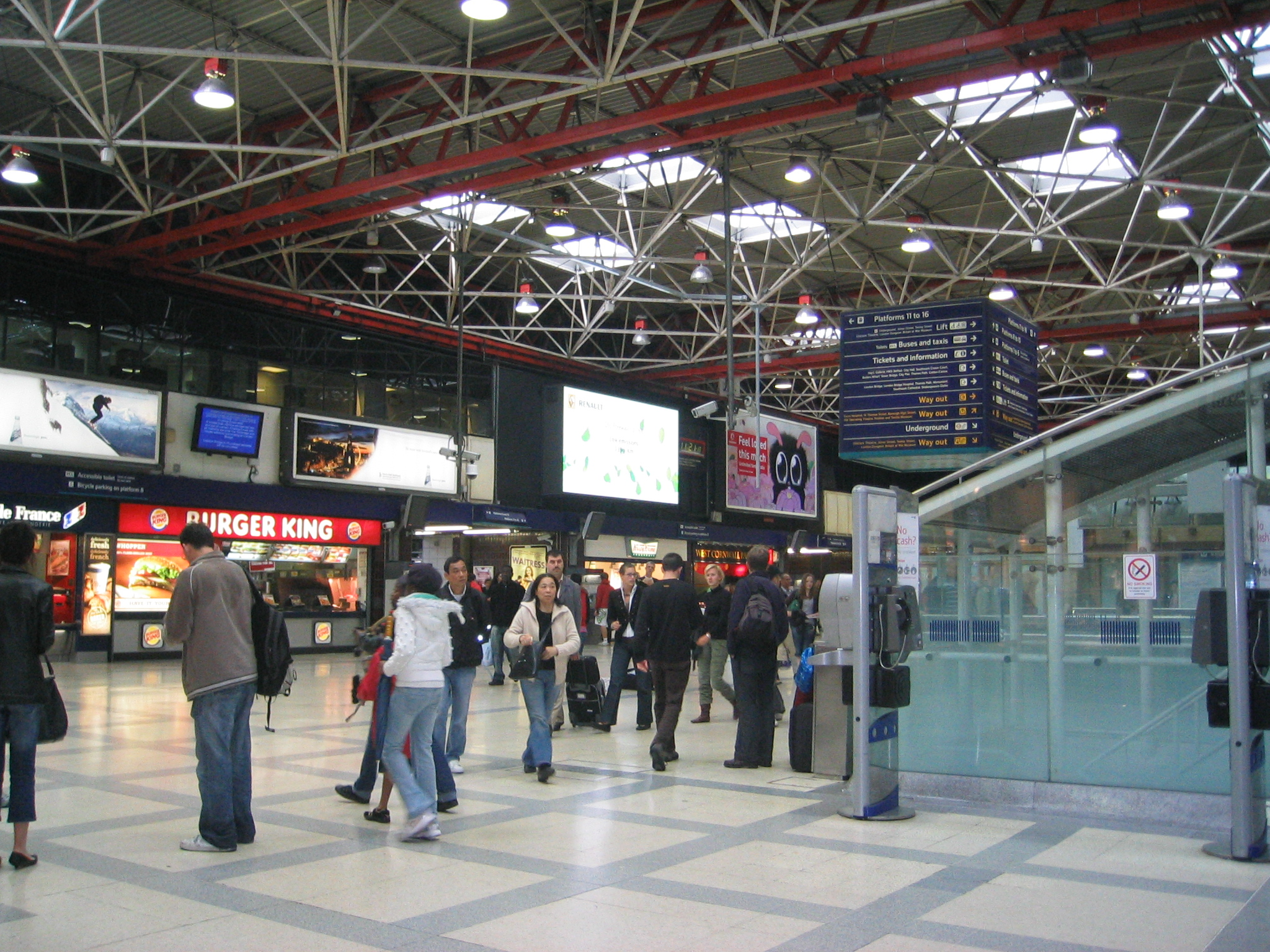 London